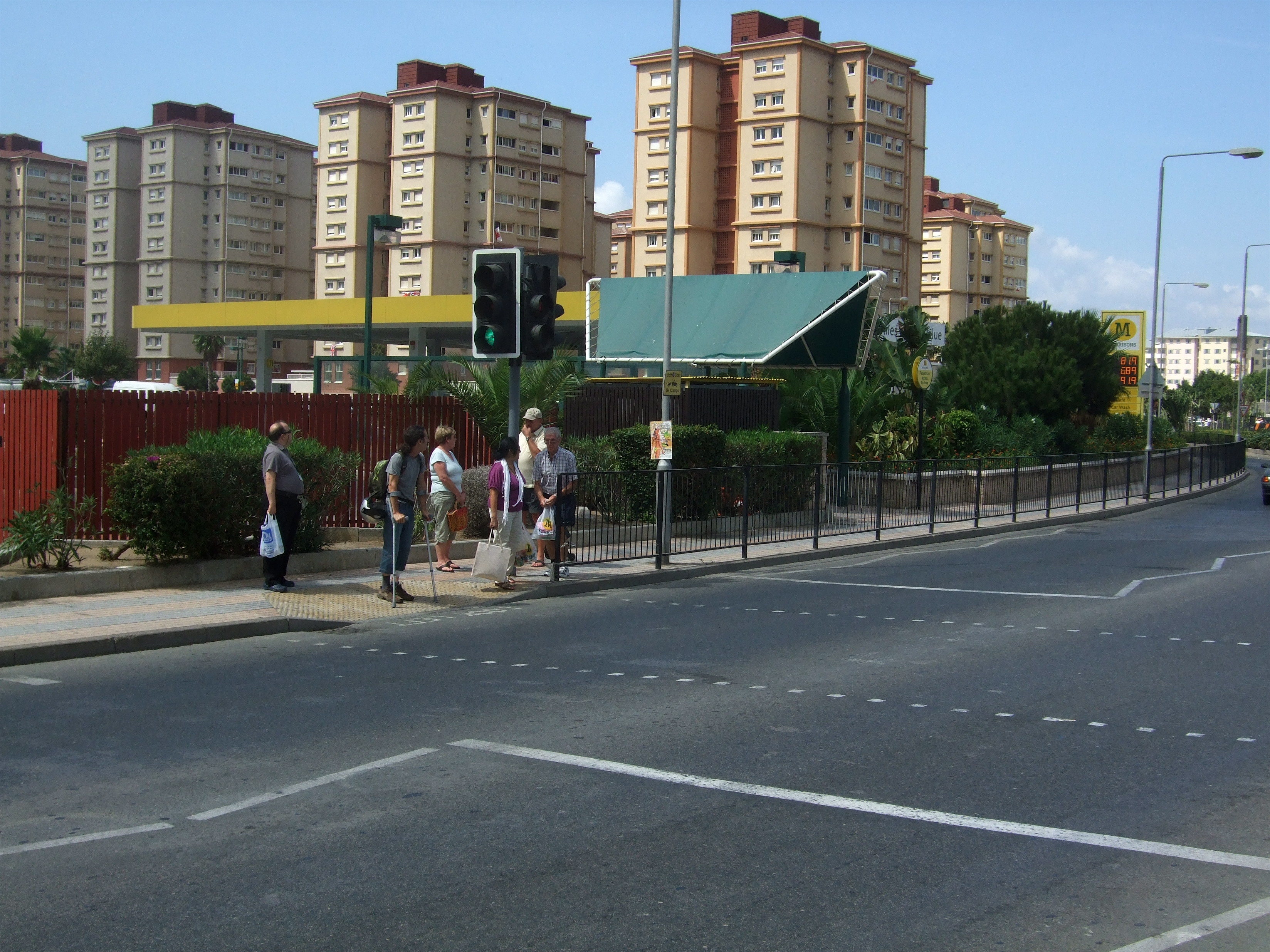 Europort Avenue, Gibraltar. Just across the road from Morrisons.